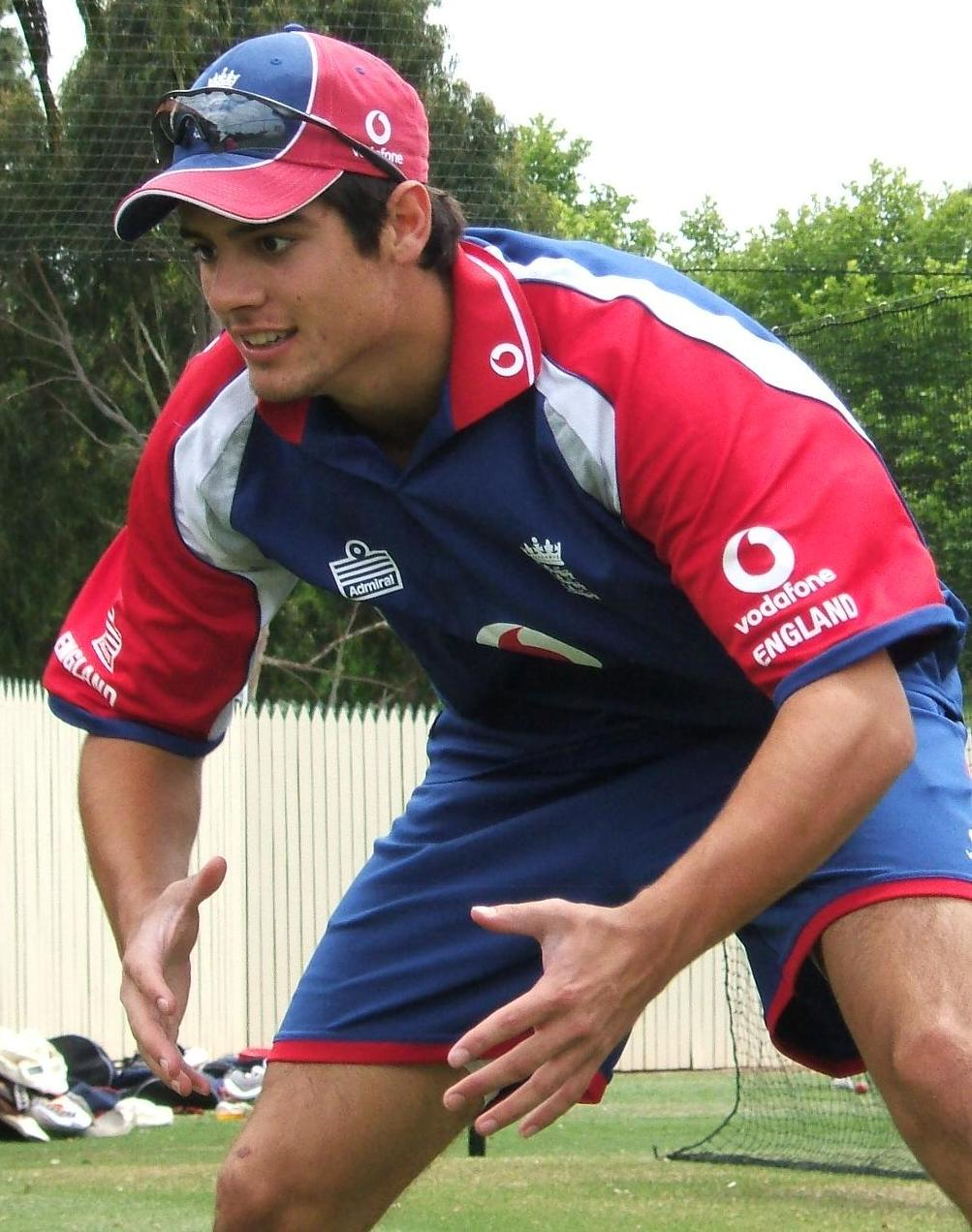 Alastair Cook catching in the nets at Adelaide Oval